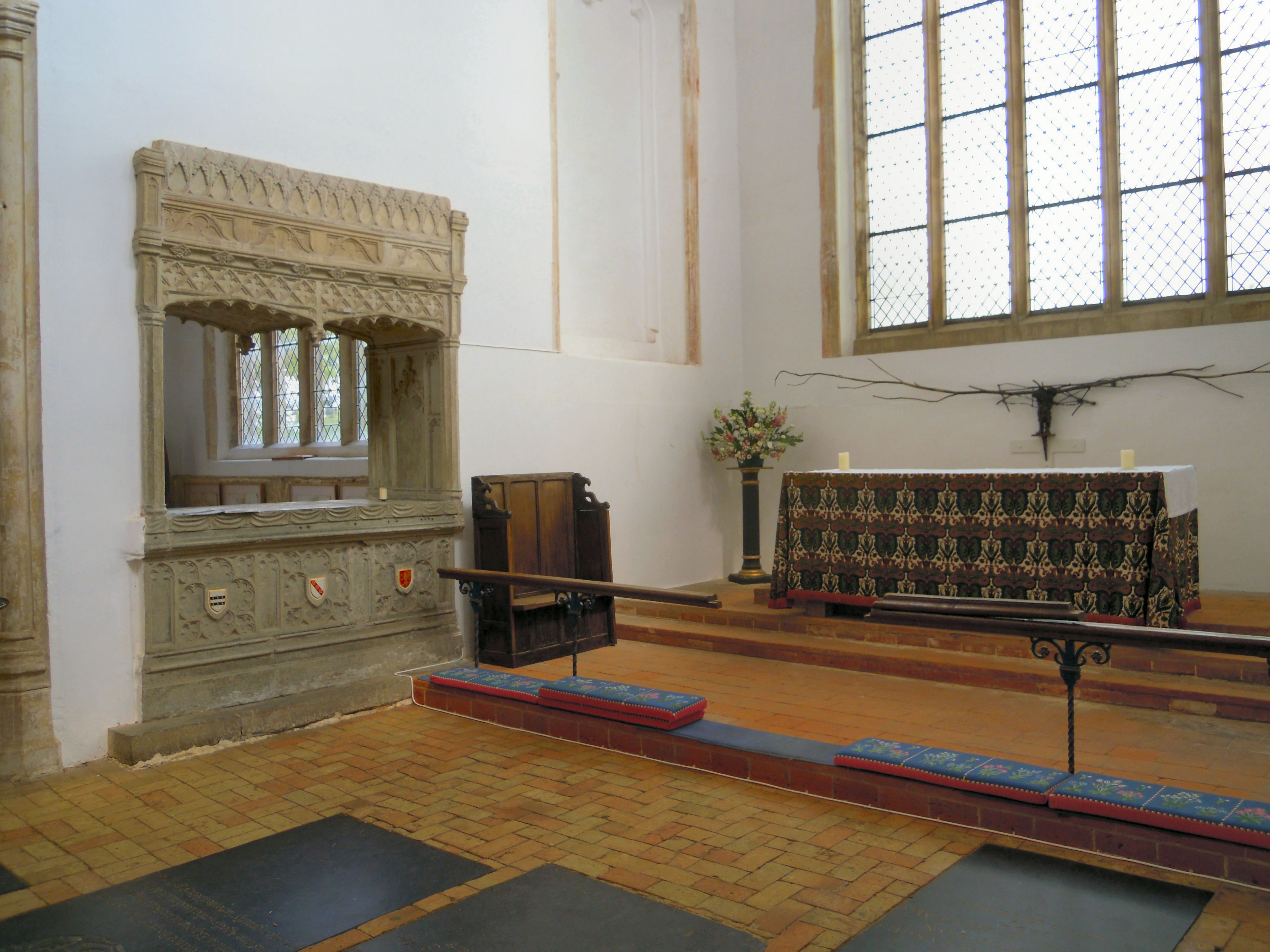 The main altar at Holy Trinity Church in Blythburgh